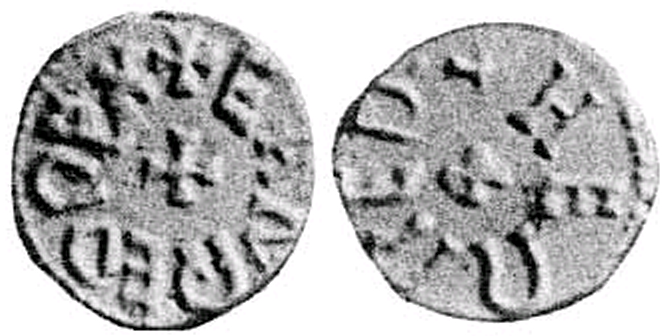 Coin of Eanred of Northumbria